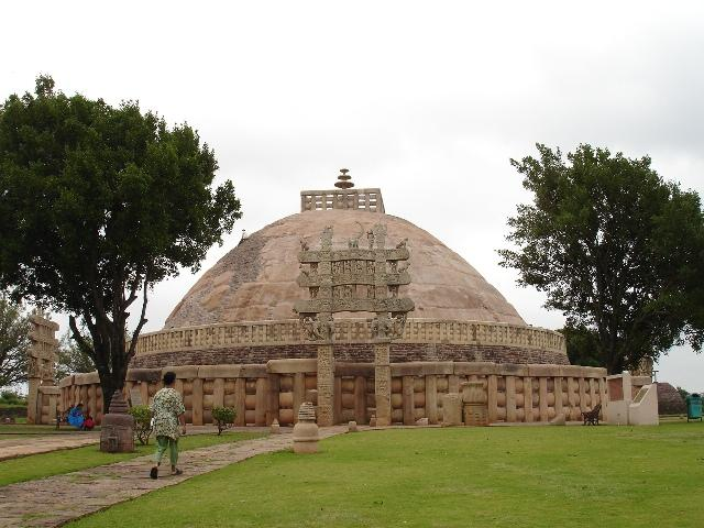 Buddhist stupa. Image from Sanchi, India. Photograph taken by Wikivoyage user Peraltita [1]. Image taken on September 2, 2006. Licensed under Attribution-ShareAlike 1.0.